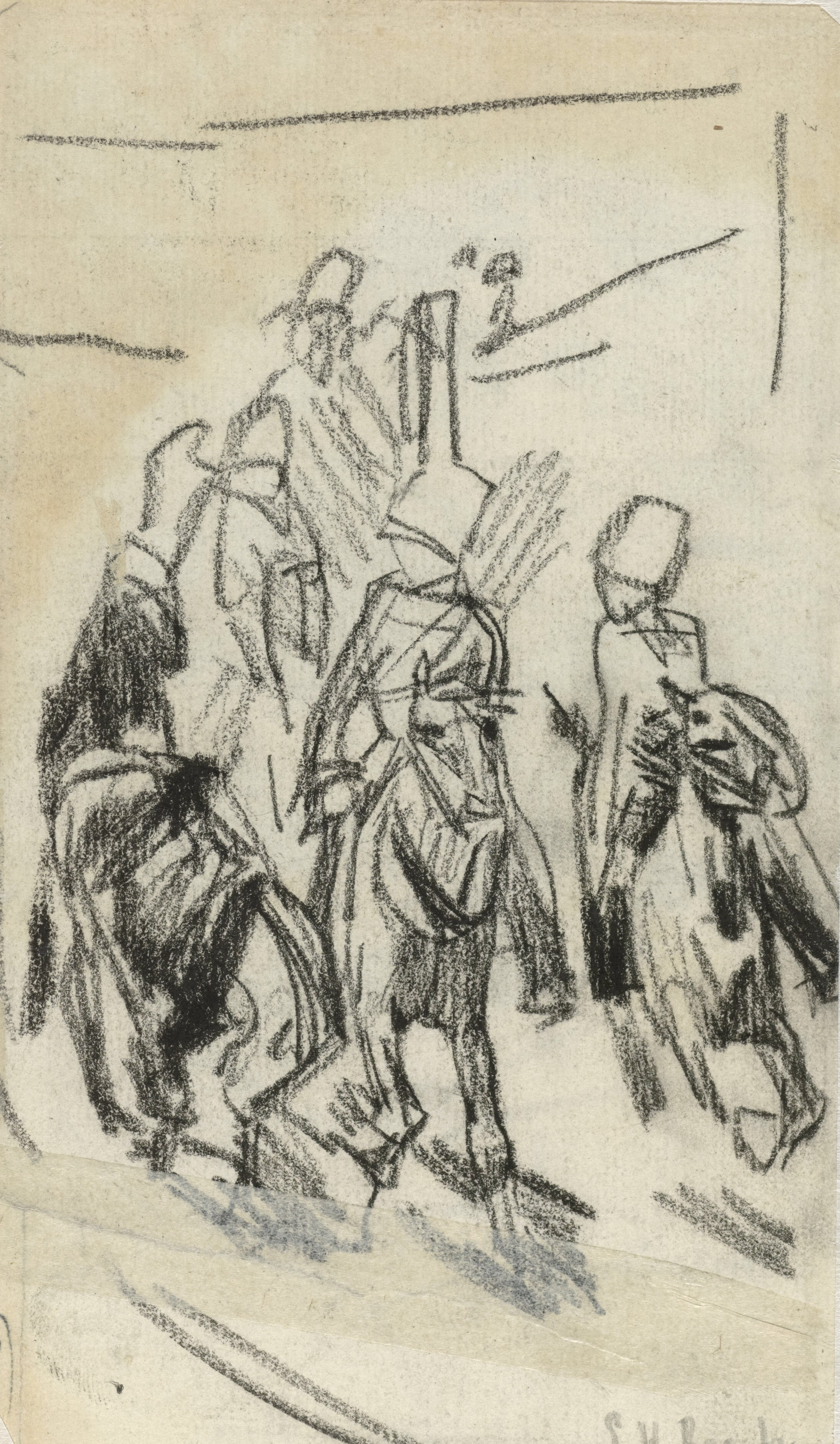 Studie voor De gele rijders